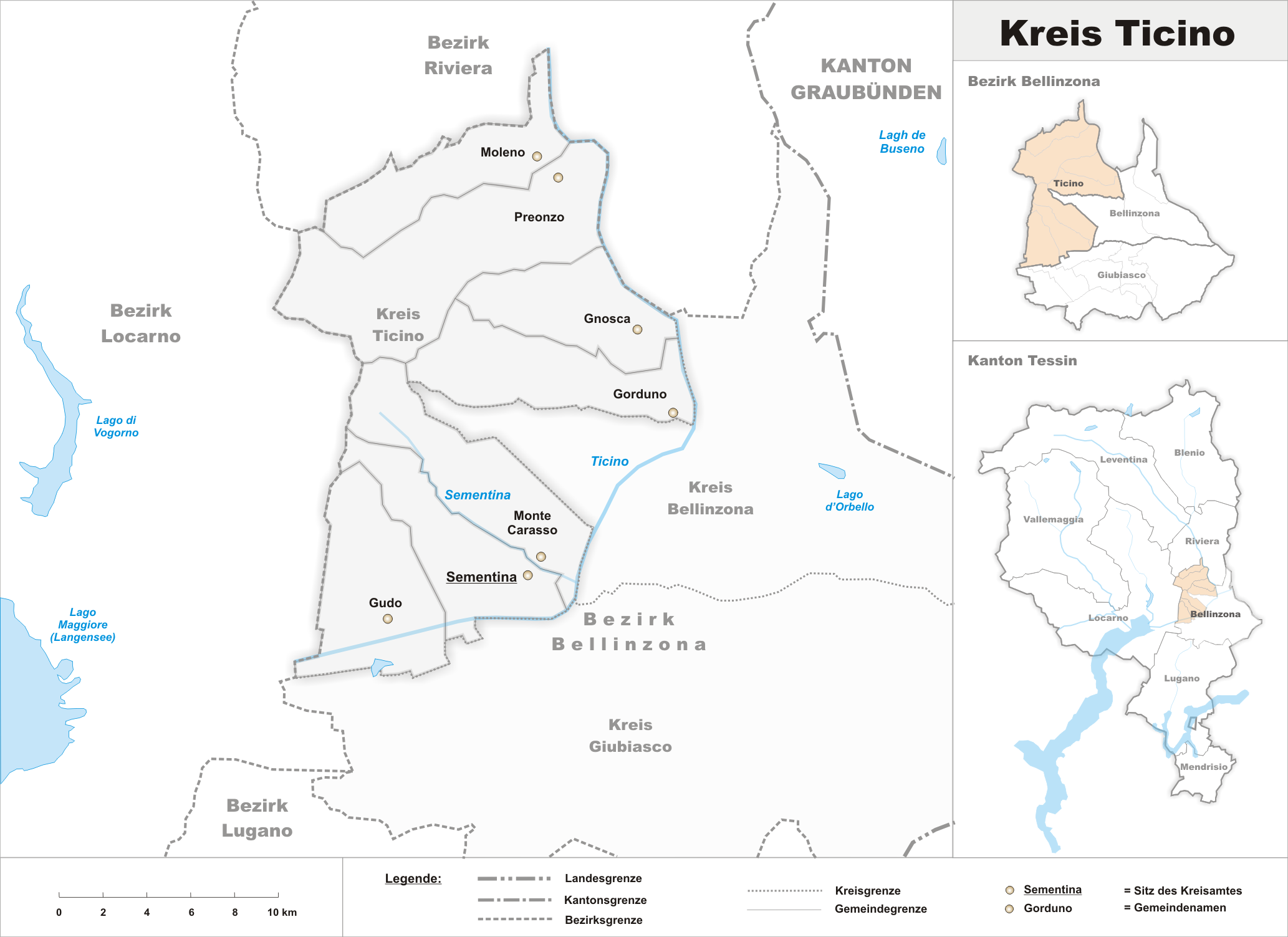 Municipalities in the circle of Ticino